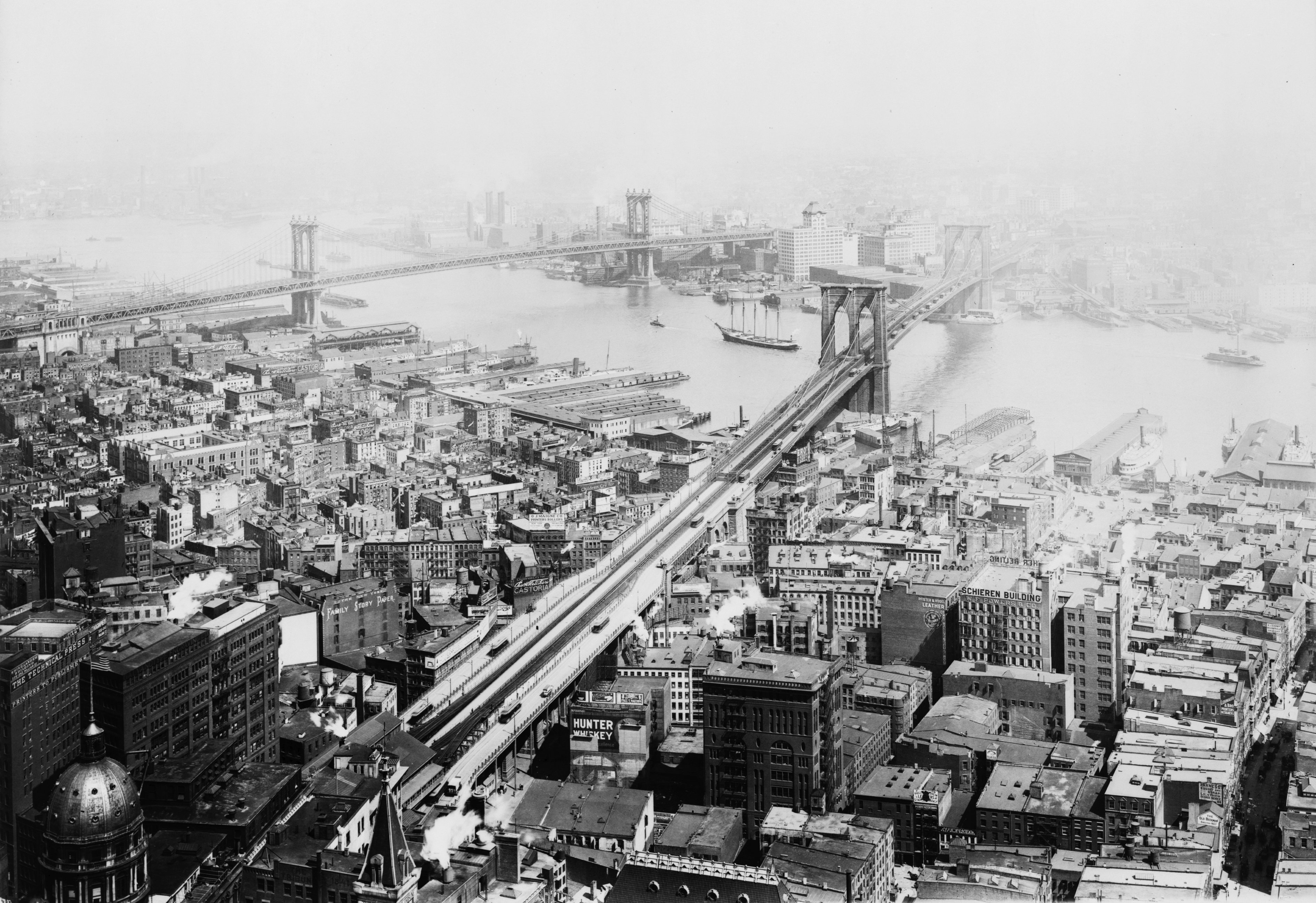 Brooklyn and Manhattan bridges, New York City, in 1916.